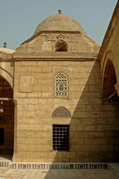 Sulayman Pasha Mosque. Citadel. Cairo. Egypt